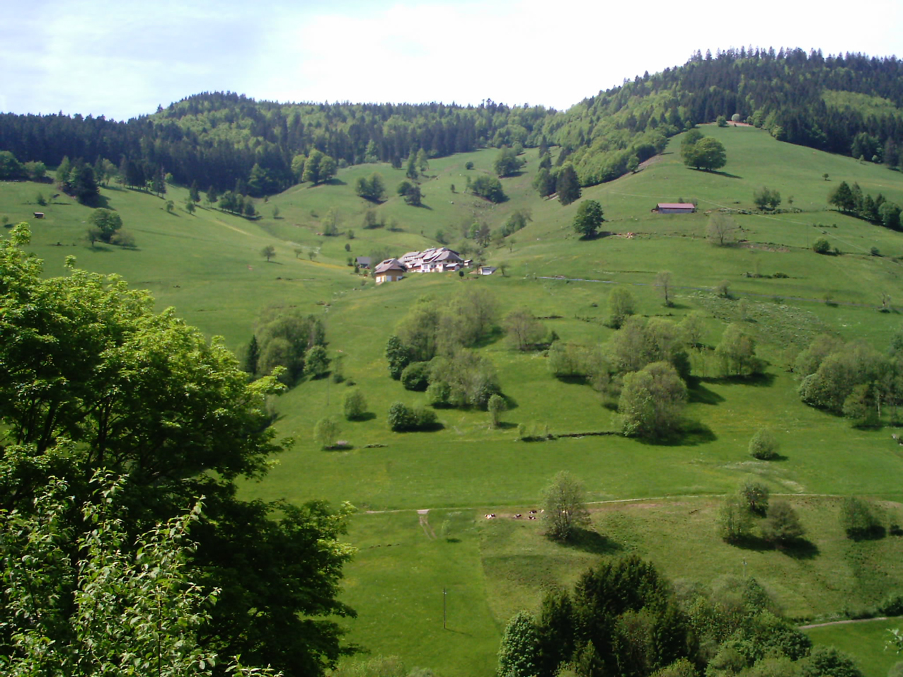 Black Forest, Germany